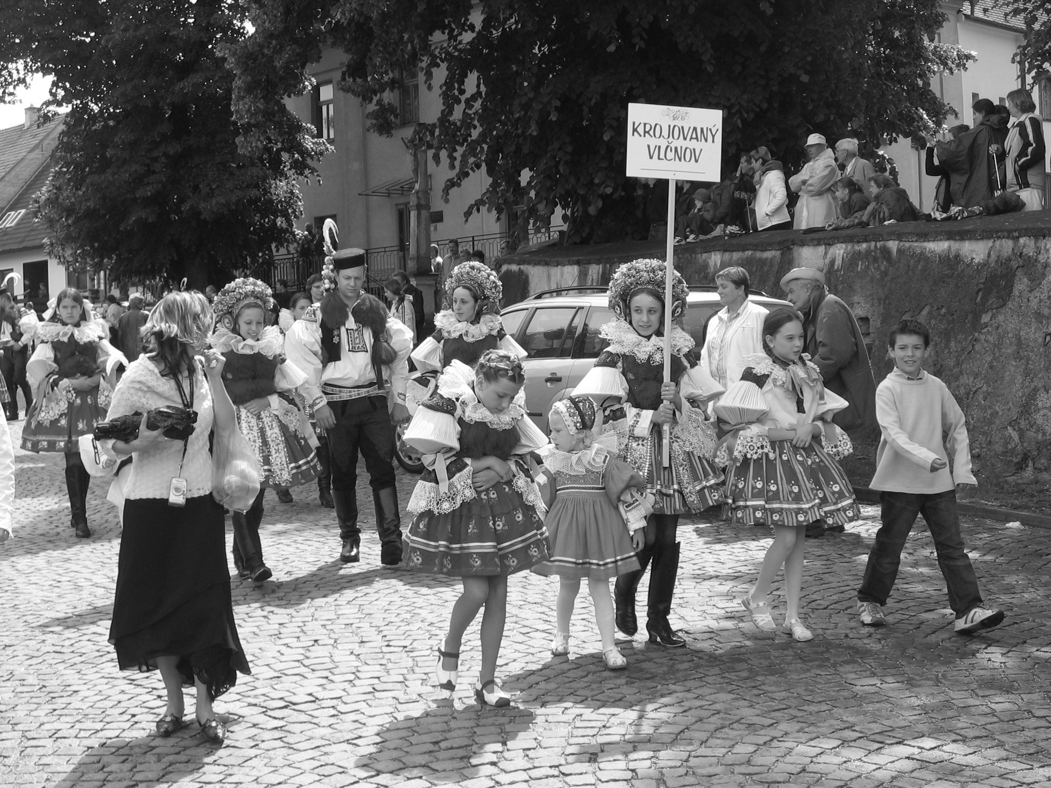 People marching in traditional costumes during the Ride of the Kings